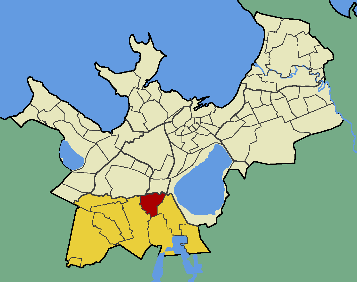 Map of Tallinn (Estonia) with borders of the quarters, Nõmme district and Rahumäe quarter emphasised